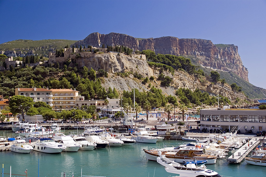 The fishing village of Cassis in Provence: the harbour and the distant cliffs of Cap Canaille